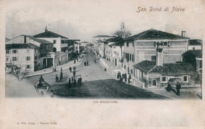 Via Maggiore, San Donà di Piave (Venice)